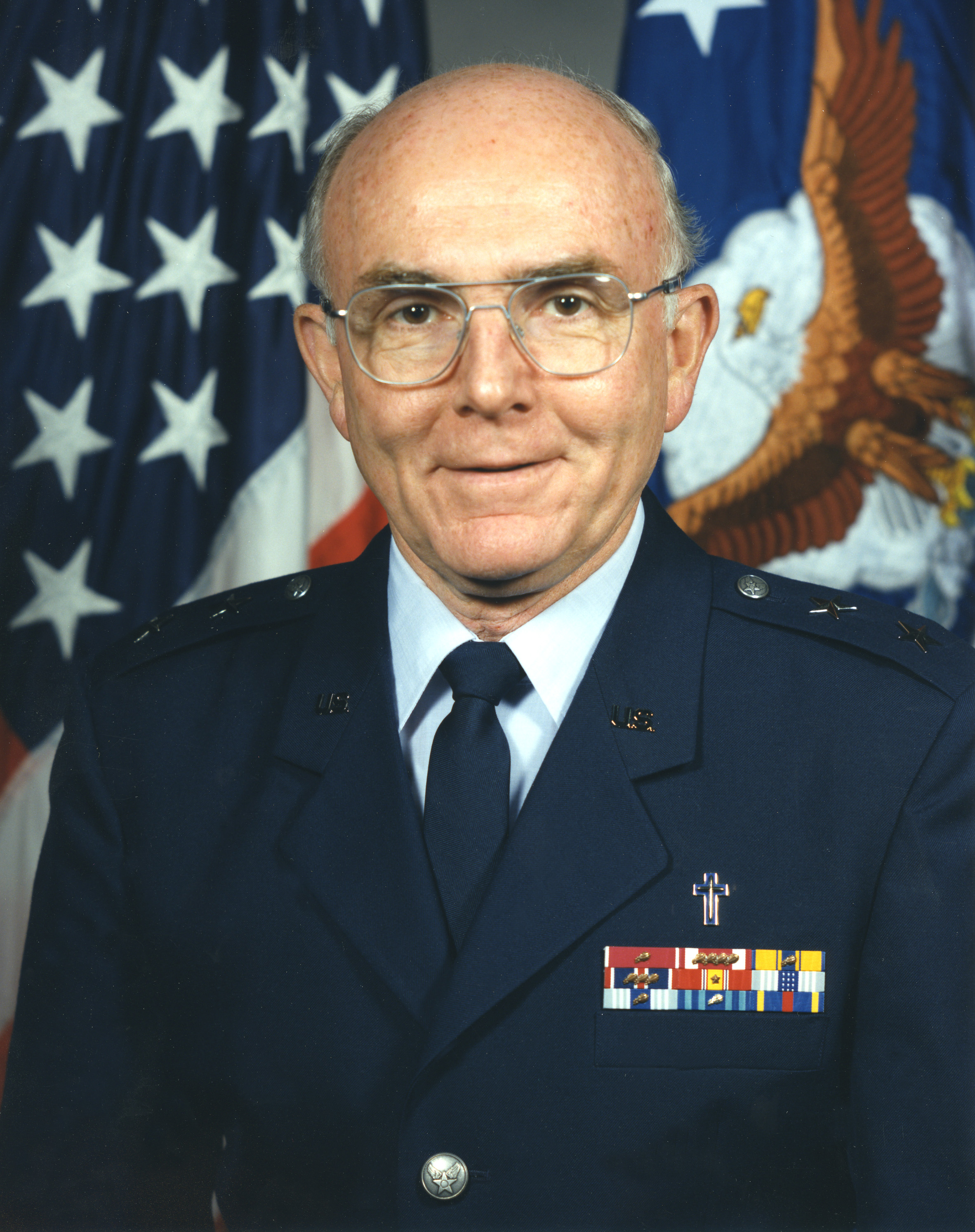 William Dendinger, Chief of Chaplains USAF